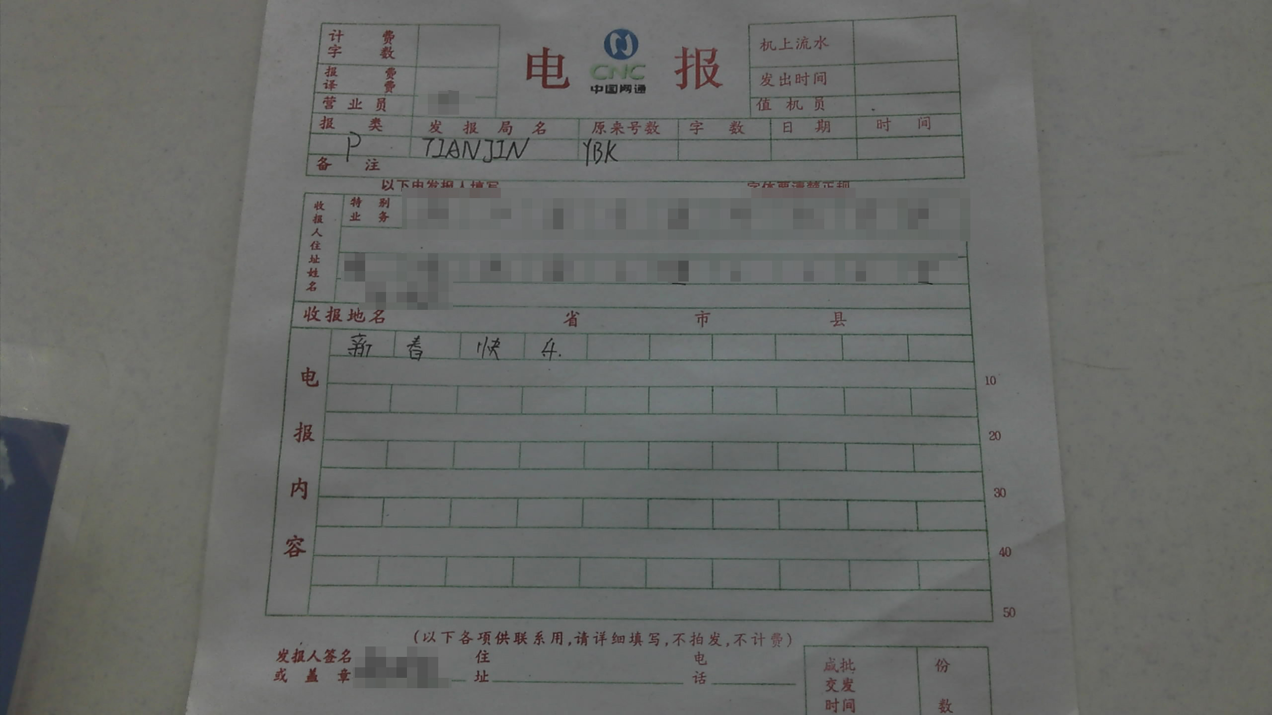 Telegraph Sheet from Tianjin Telegraph Building(NanJing Road Hall,China Unicom)